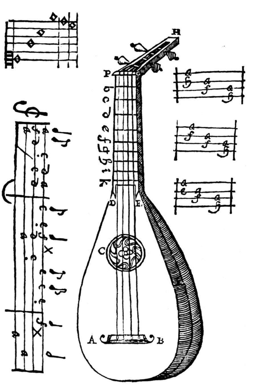 Picture of a mandore, with tablature from Marin Mersenne's Harmonie Universelle, published 1636 in Paris.